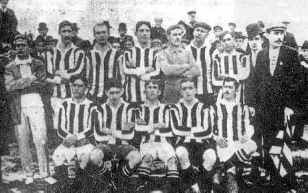 Montevideo Wanderers wins the Uruguayan Tournament. 1909.